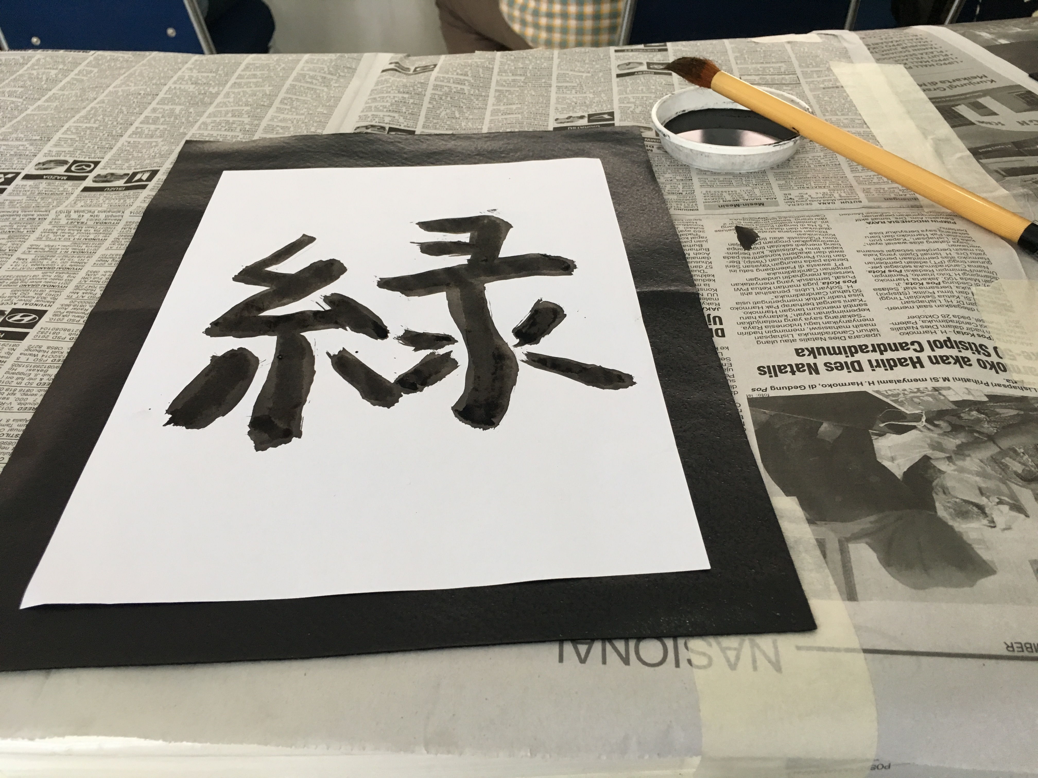 A Japanese calligraphy, with midori (緑) kanji being shown